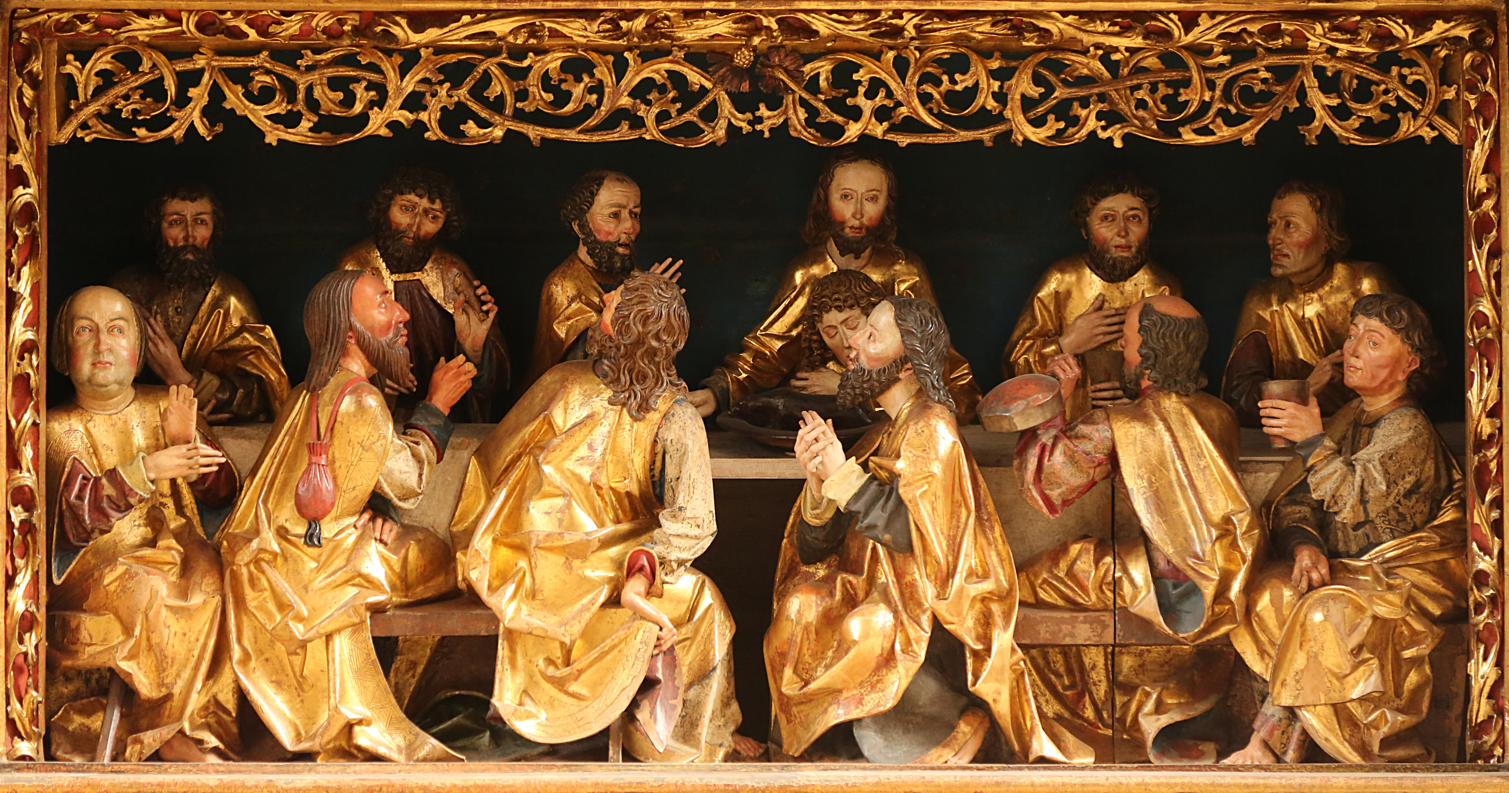 Detail from the main altar at the church St. Johannes und St. Martin in Schwabach